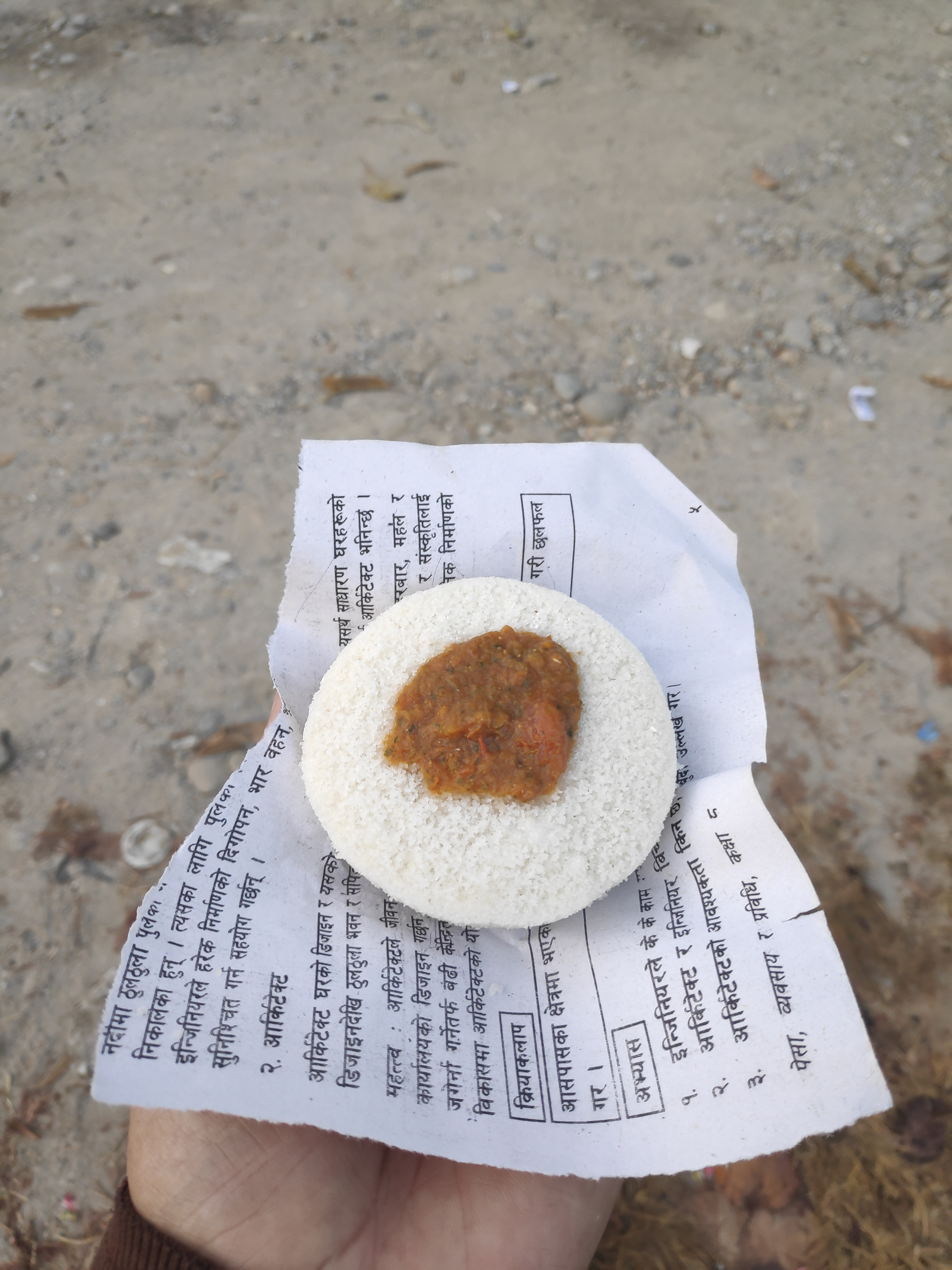 Bhakka with Chatani, ready to eat. Bhakka, as this dish is called, is a traditional dish for people of the Rajbanshi, Tharu, and Tajpuria communities in Nepal. This photo has been taken in the country: Nepal